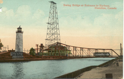 The bob-tailed swing bridge with a car of the Hamilton Radial Electric Ry. crossing to Burlington.